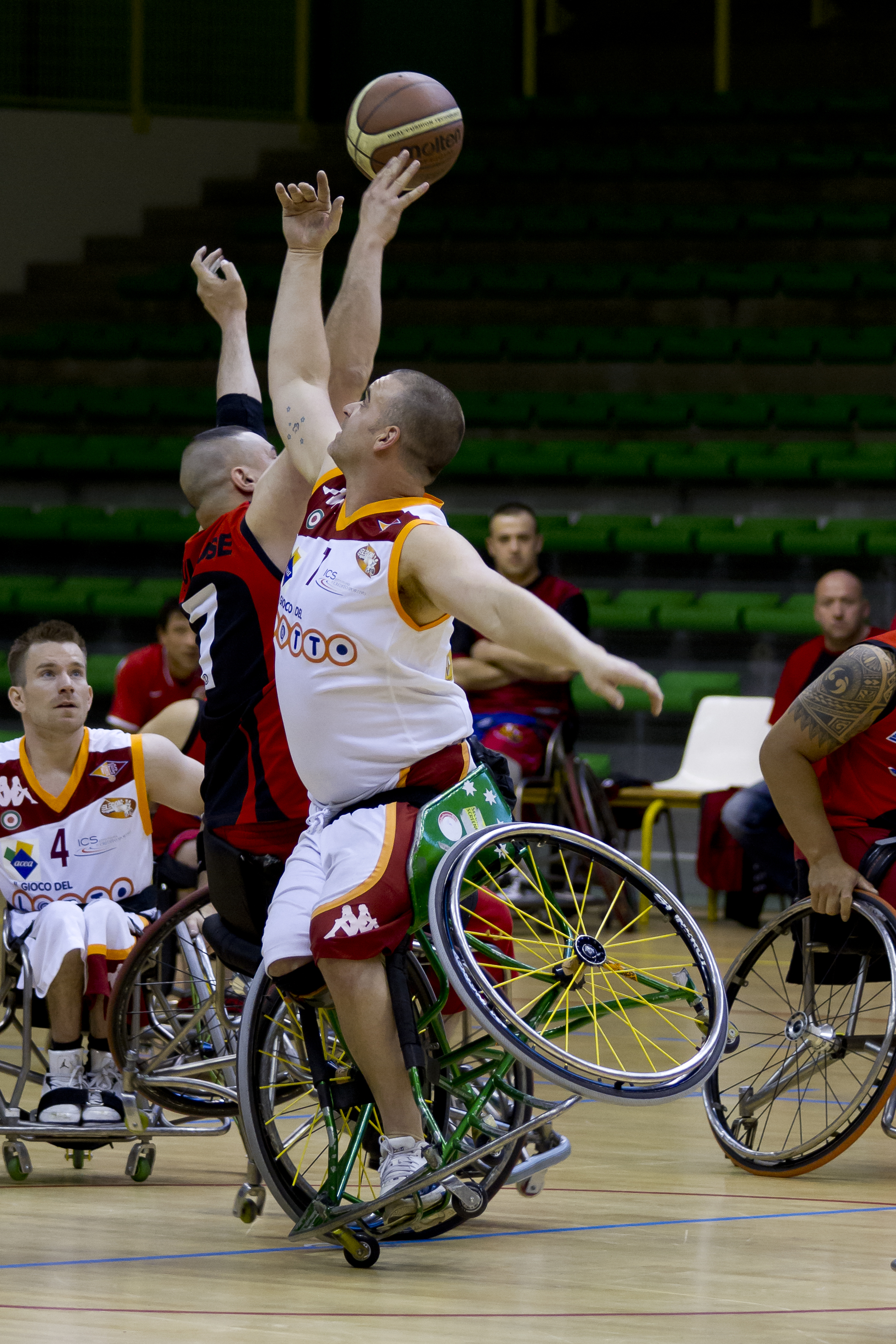 Jump ball during wheelchair basketball match between Roma and Toulouse in 1st stage of Euroleague.